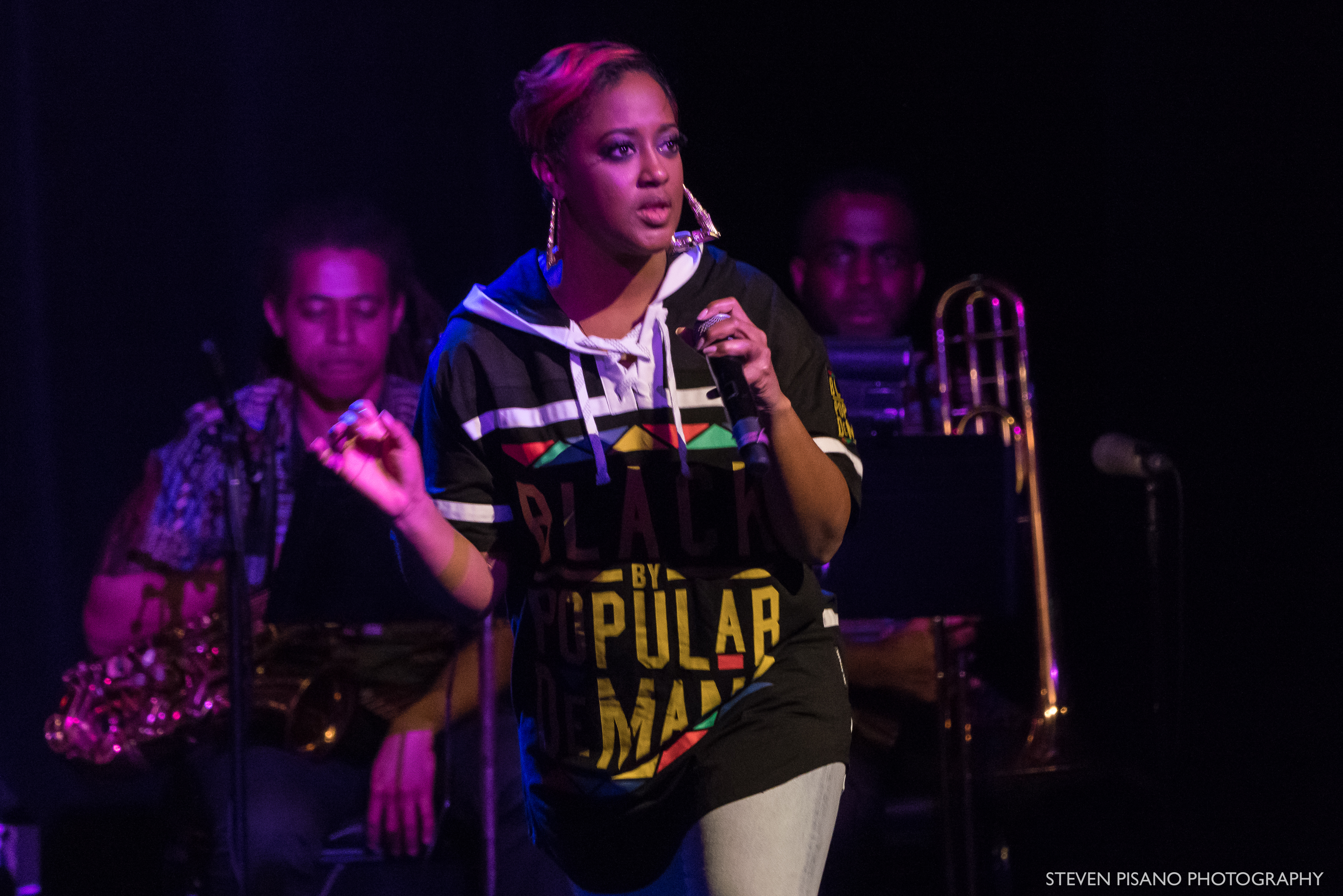 Rapsody performing for Soundtrack '63 at Apollo Theater on February 24, 2018 in New York City.